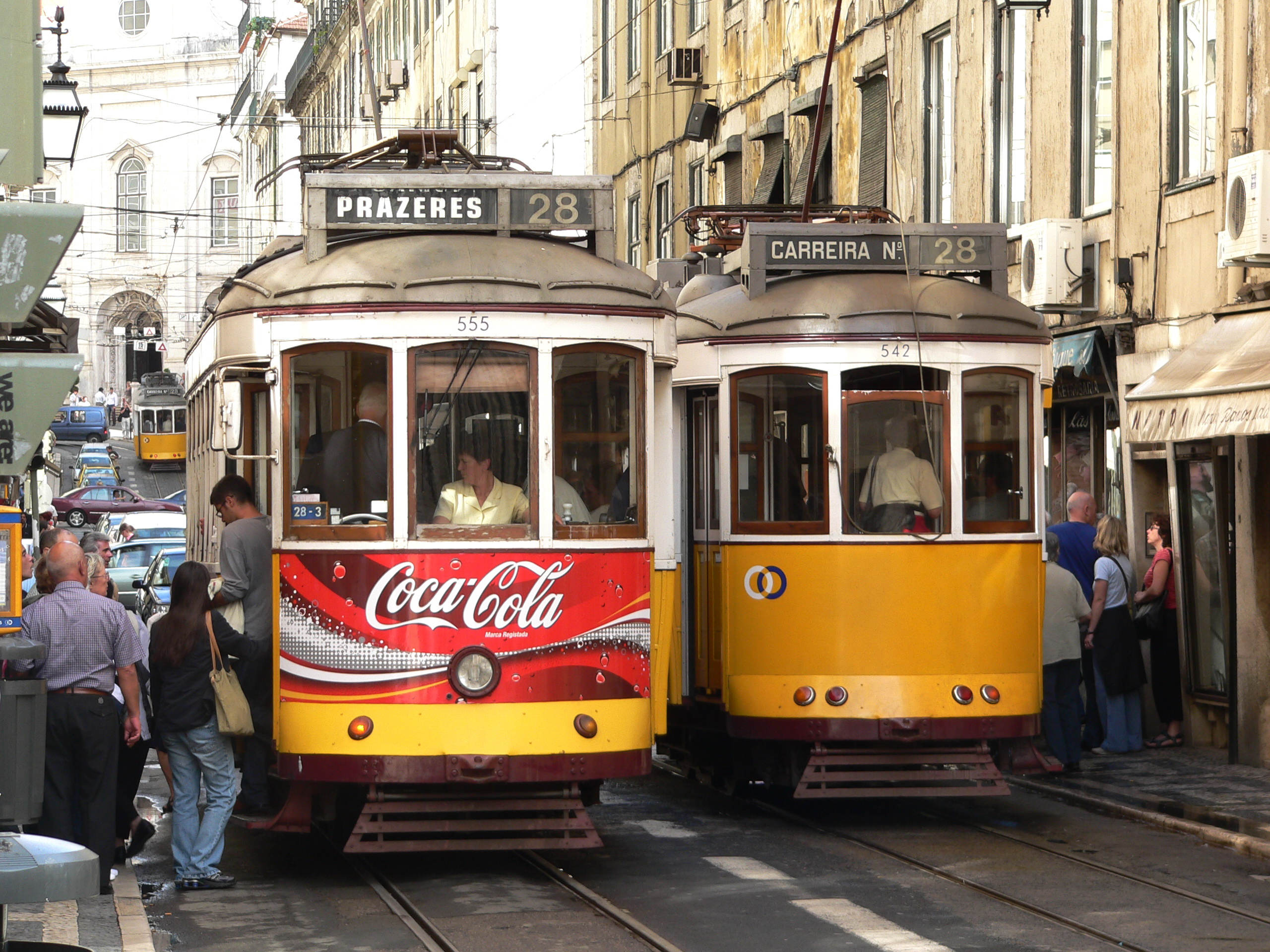 Two tramcars tramway No. 28, Lisbon